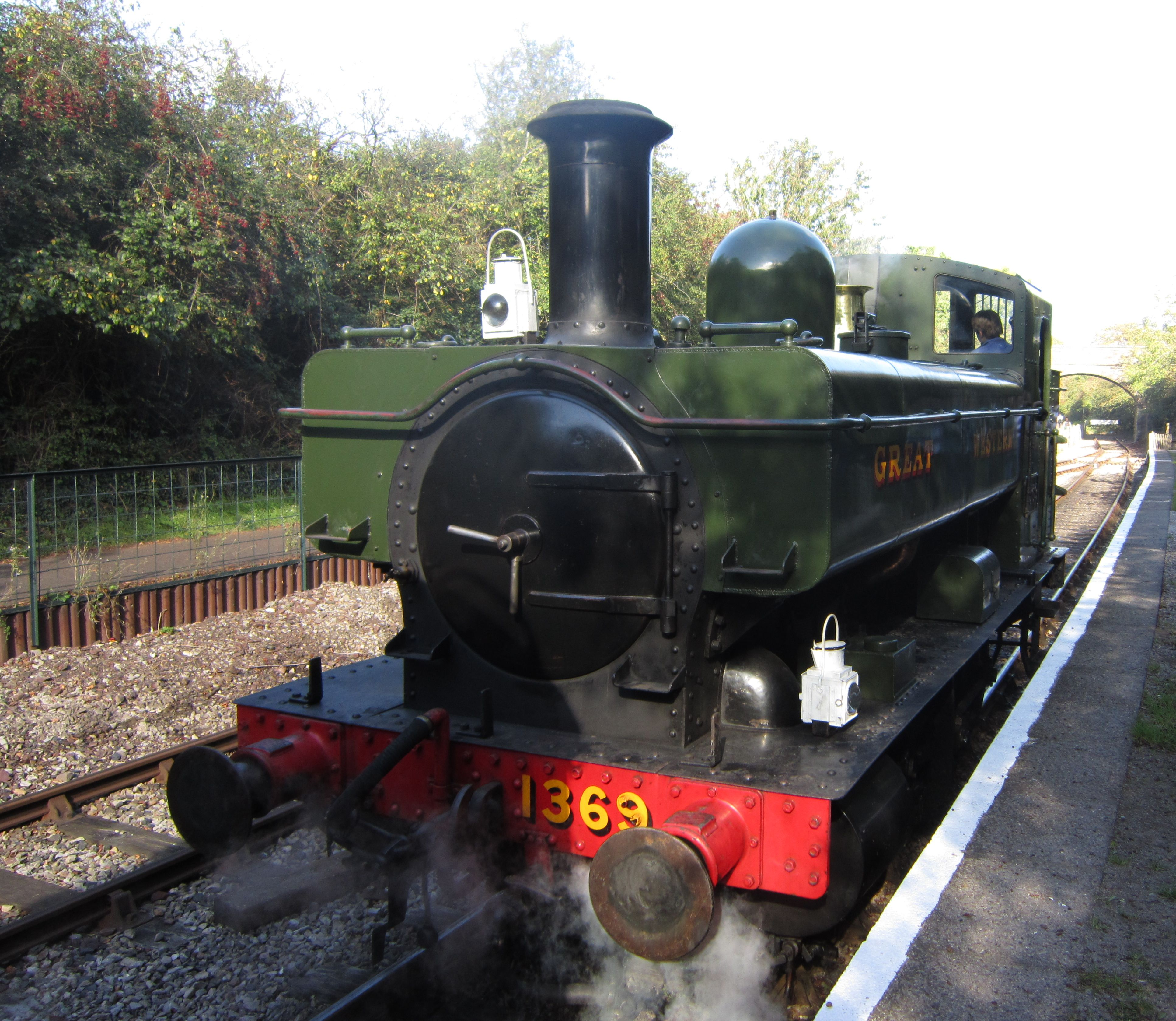 GWR 0-6-0PT no. 1369 at Oldland Common railway station